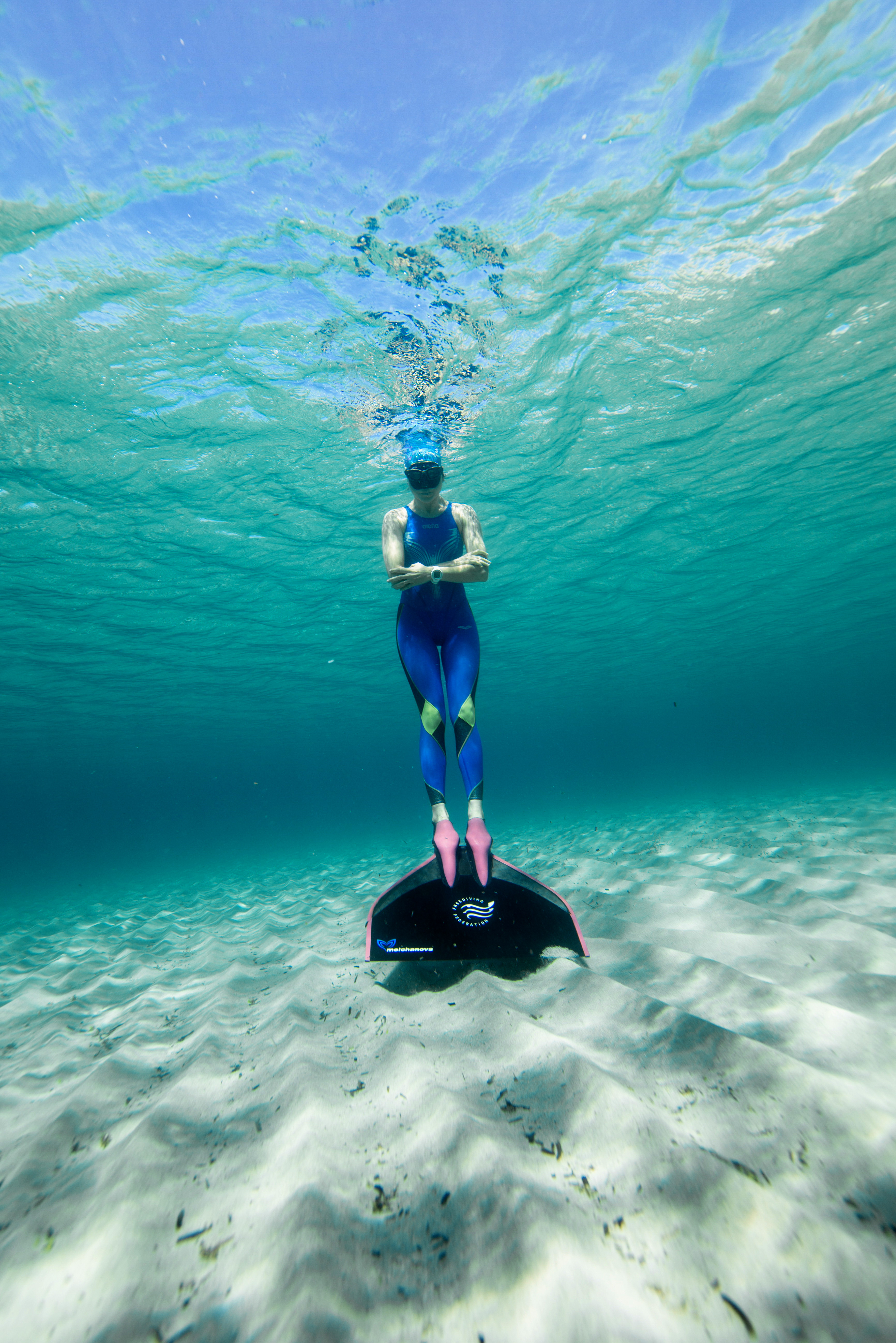 Birgül Erken, serbest dalış şampiyonu.